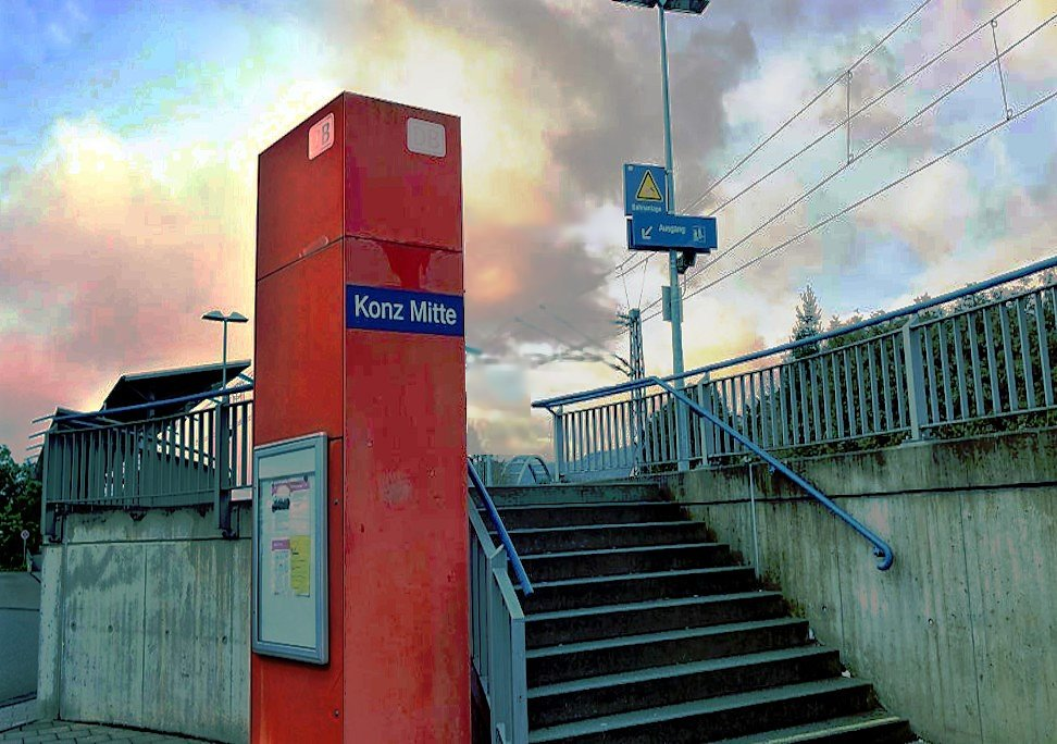 Konz Mitte railway station, seen from Granastraße. Konz, Rhineland-Palatinate, Germany.